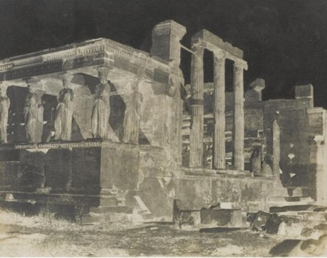 by George Wilson Bridges Erechtheum, Western Portico in 1848